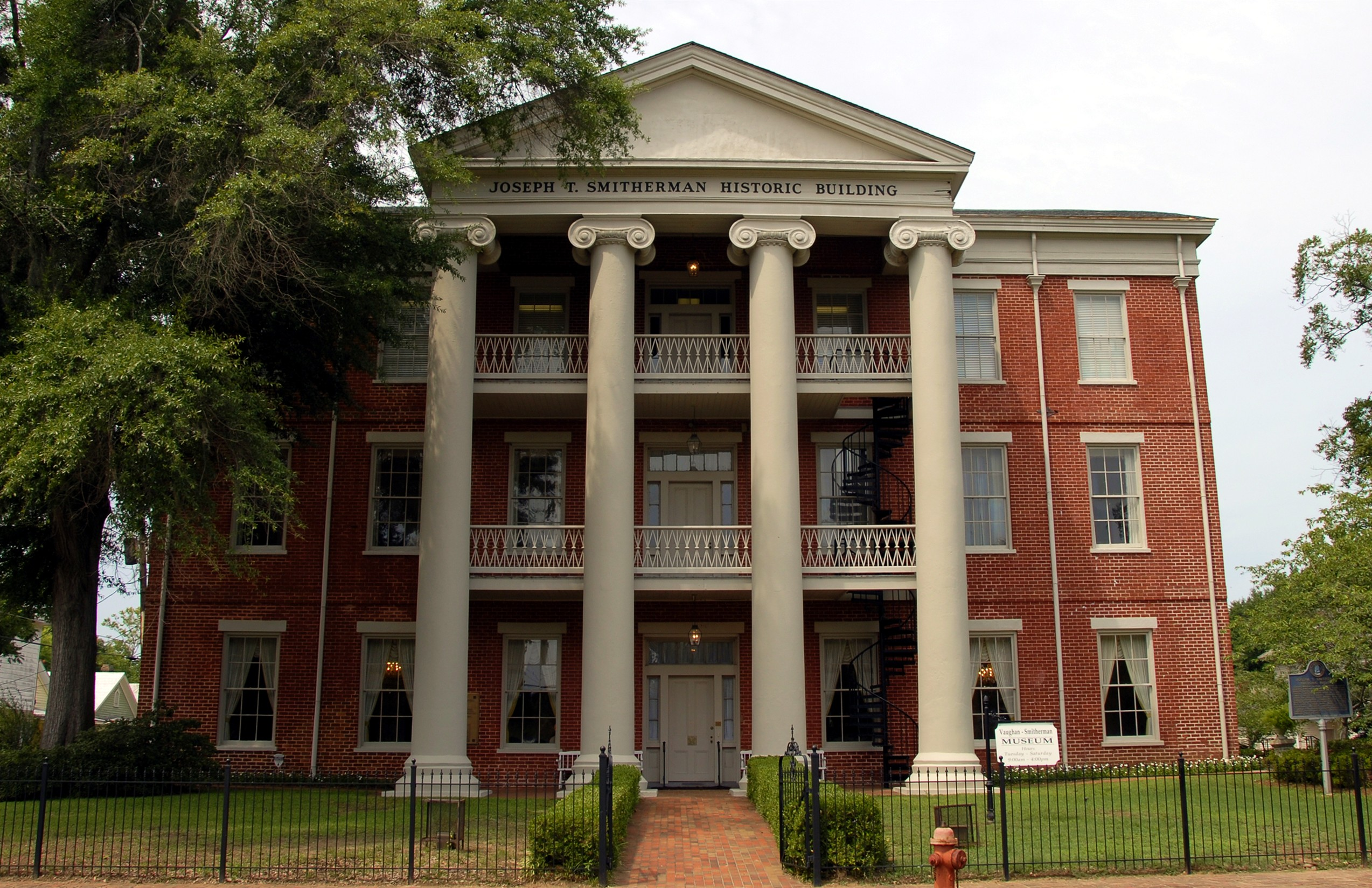 The Joseph T. Smitherman Historic Building in Selma, Alabama. Built in 1847, it has served as a Confederate hospital, the Dallas County Courthouse, a Presbyterian high school for boys and again as a hospital until the city bought it in 1968. It currently houses the Vaughan-Smitherman Museum.